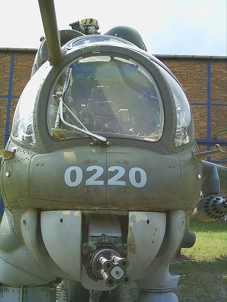 Mil Mi-24D, Kbely museum, Prague, Czech Republic